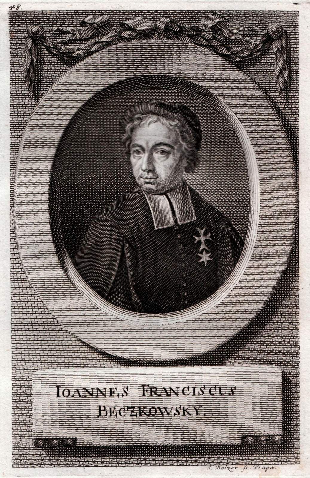 Portrait of Jan František Beckovský (1658 - 1722), Czech writer, historian and translator.